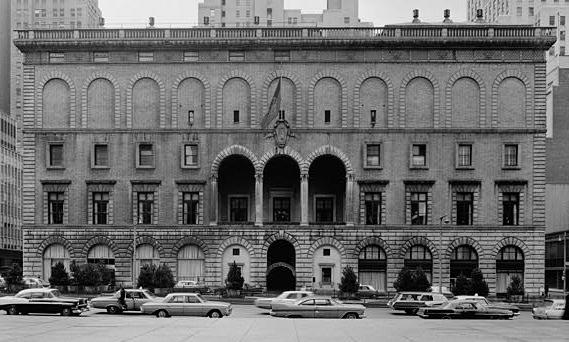 Racquet and Tennis Club, 370 Park Ave., NYC (Historic American Buildings Survey, Jack E. Boucher, Photographer 1965, EAST (PARK AVENUE) FACADE. HABS, NY,31-NEYO,73-1)